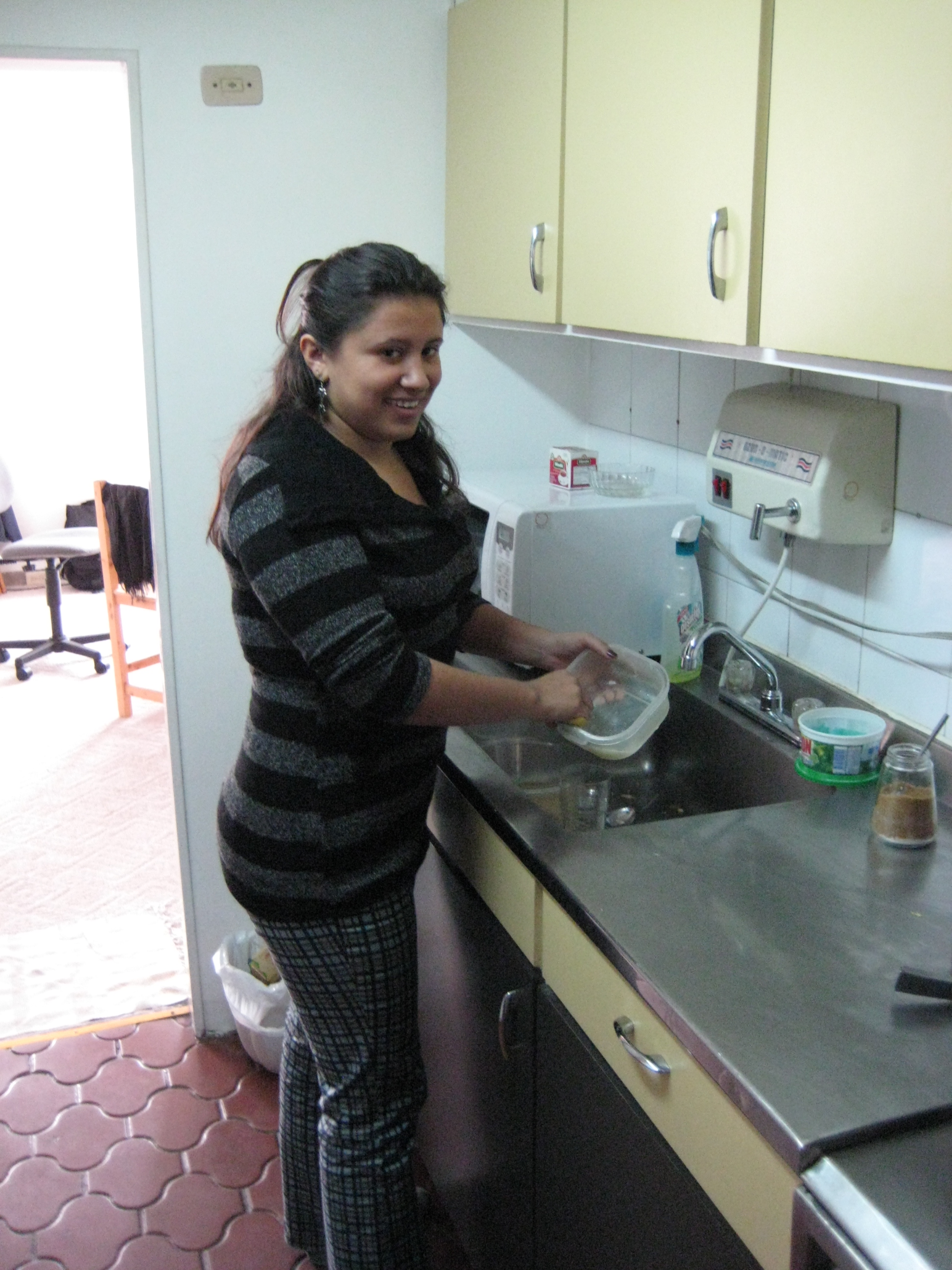 Domestic worker in Colombia